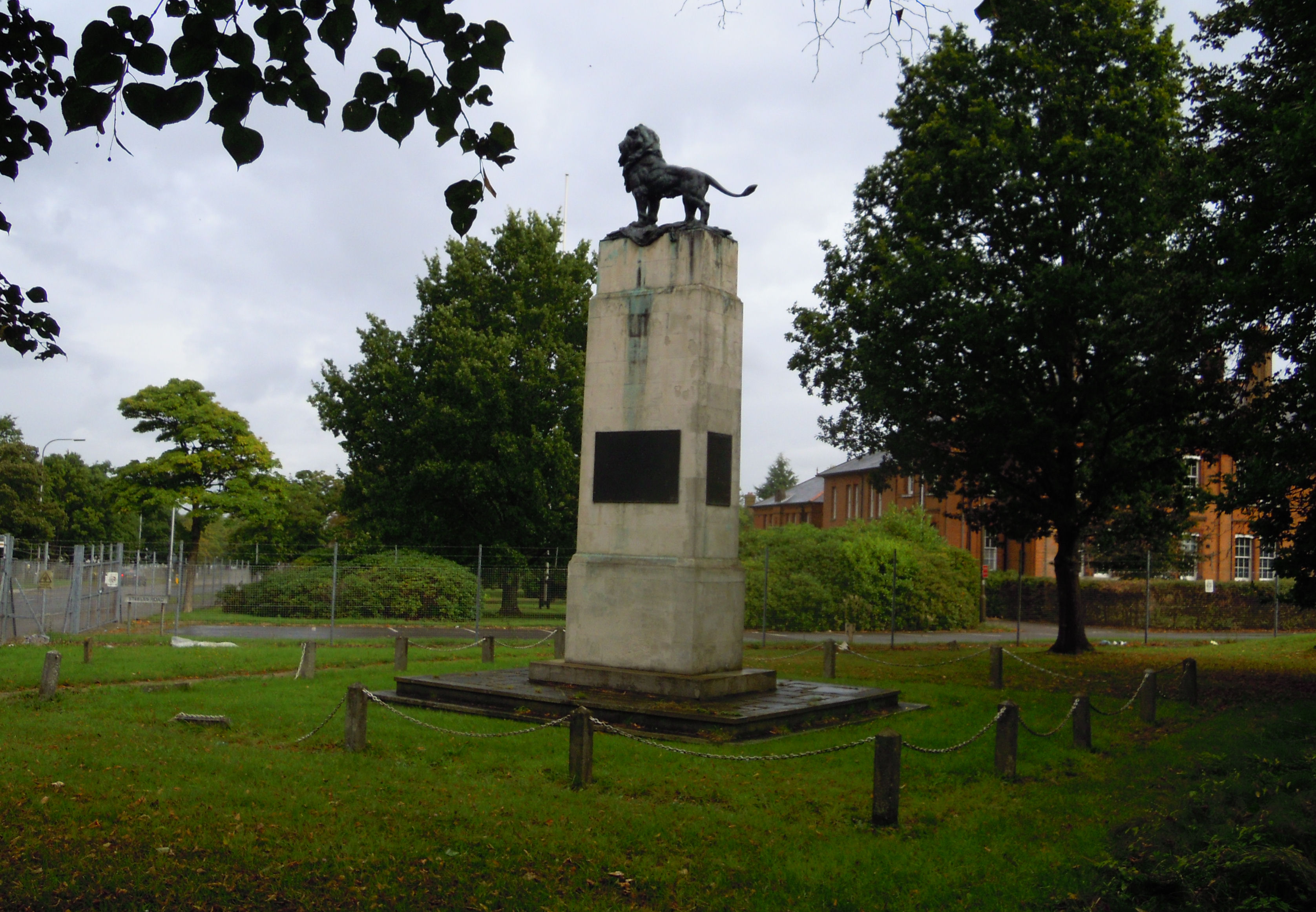 Memorial to the 8th Infantry Division on Queens Avenue in Aldershot